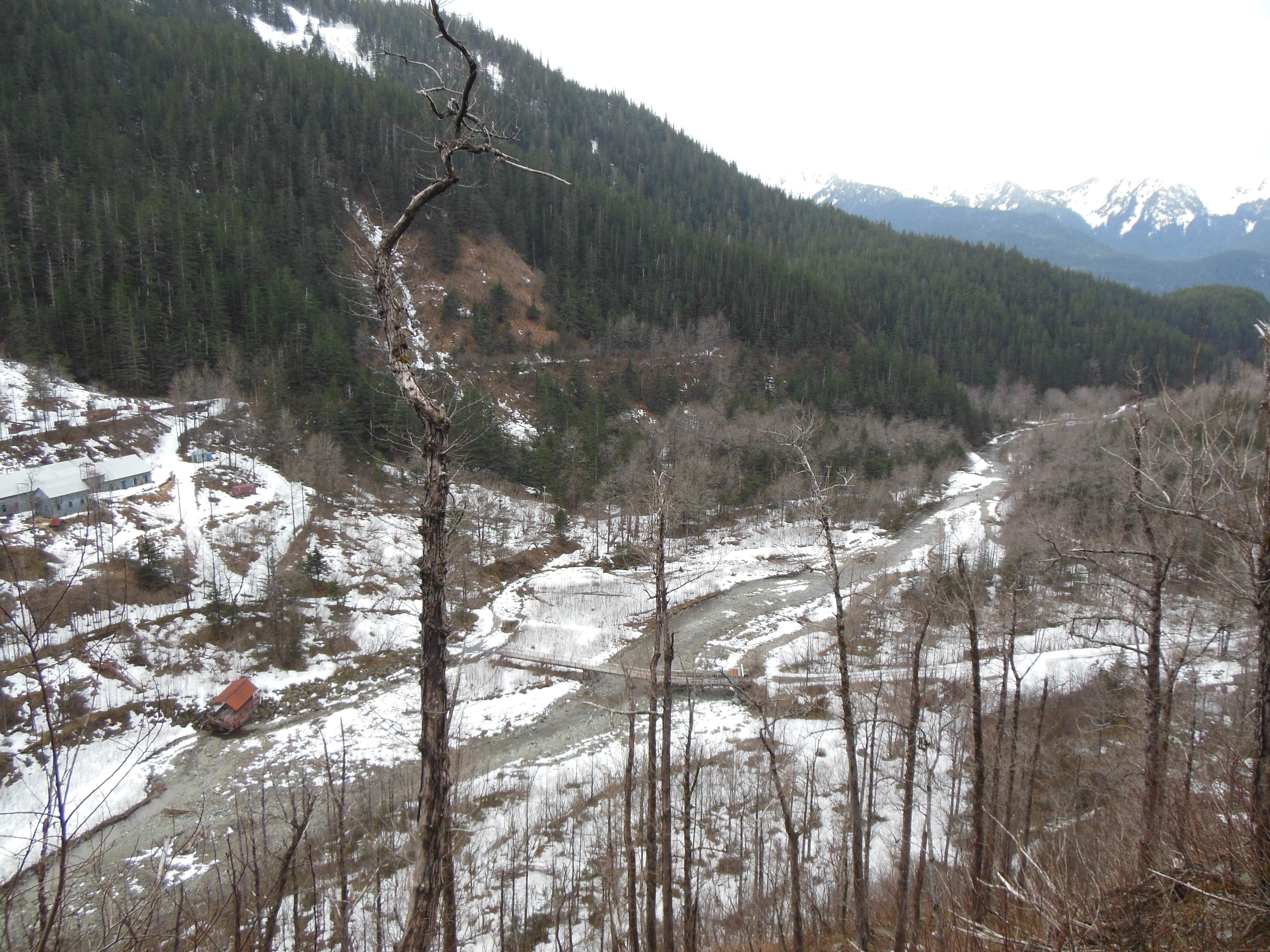 Looking down to Gold Creek from the Perseverance Trail, Juneau, Alaska, United States